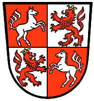 Coat of arms of Ziemetshausen.